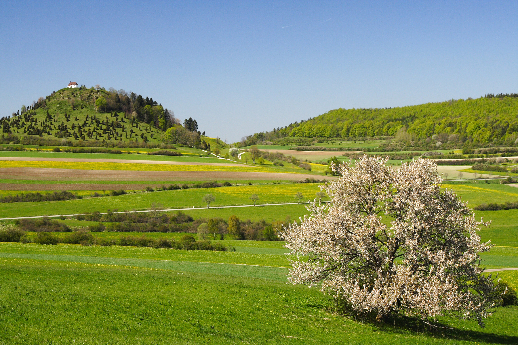 Kornbühl, Swabian Alb, near Tübingen. A hillock with a layer of sediments on top harder than limestone (fossil siliceous sponges). The pilgrimage chapel (Salmendinger Kapelle) is at least 500 years old.